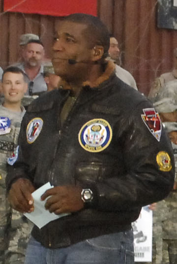 From left to right: Jay Glazer, Terry Bradshaw, Jimmy Johnson, Curt Menefee, Howie Long, and Michael Strahan, the "Fox NFL Sunday" team, wait for the start of the pregame Nov. 7, 2009. The "Fox NFL Sunday" team is scheduled to broadcast live Nov. 8, 2009 from here.